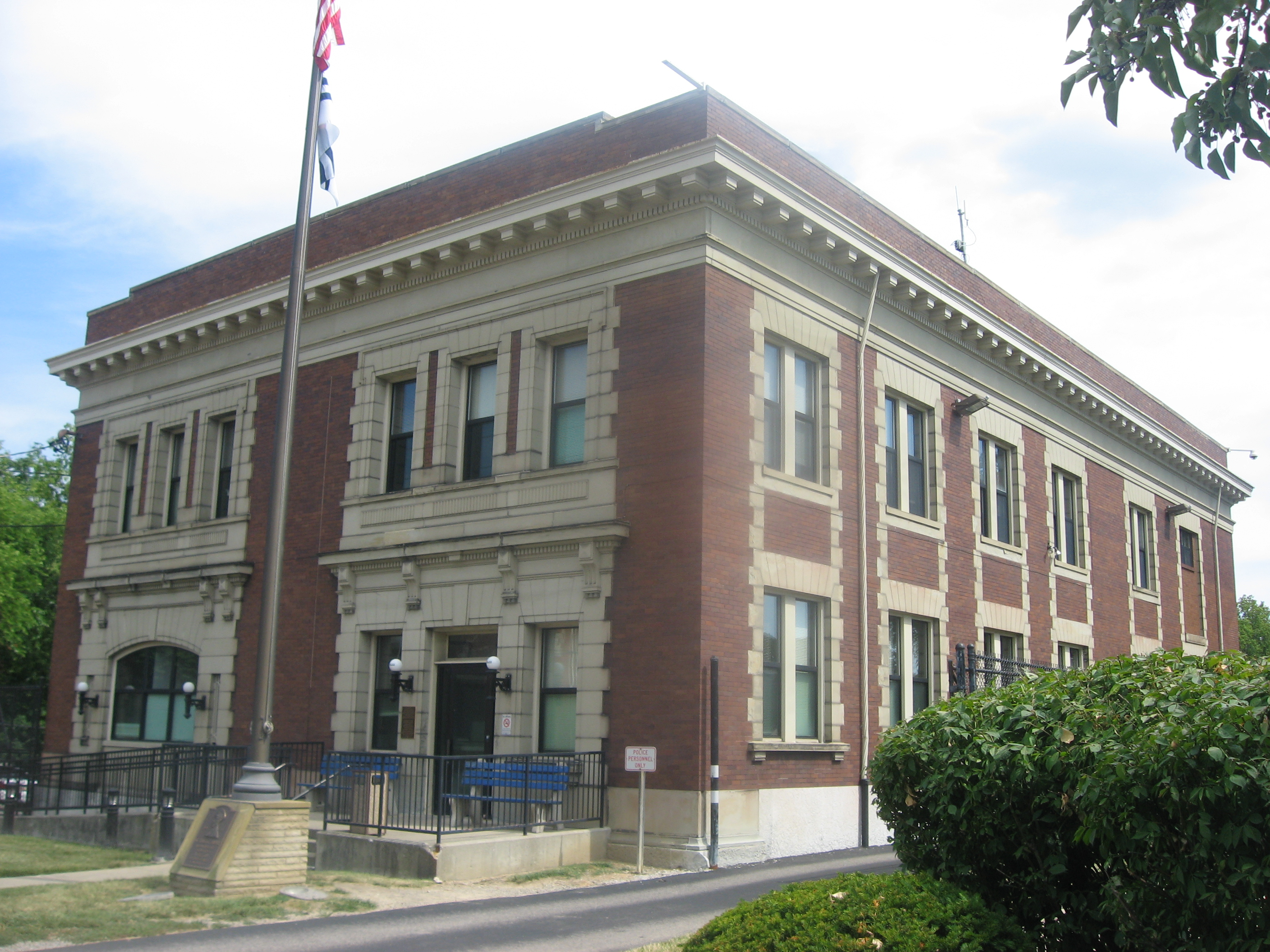 Front and western side of Police Station No. 3, located at 3201 Warsaw Avenue in the West Price Hill neighborhood of Cincinnati, Ohio, United States. Built in 1907, it is listed on the National Register of Historic Places.